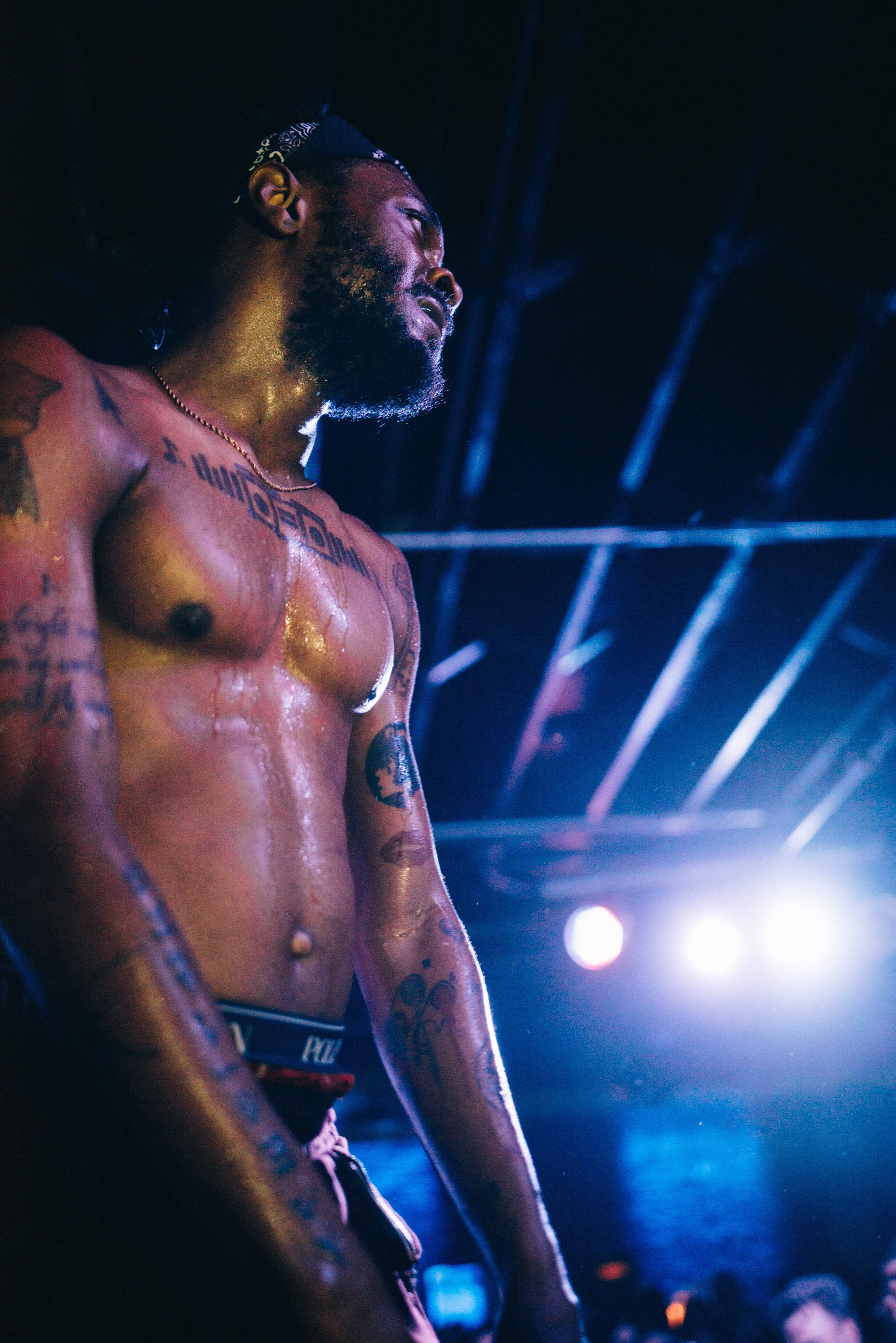 Sled Island 2019, Calgary, Canada